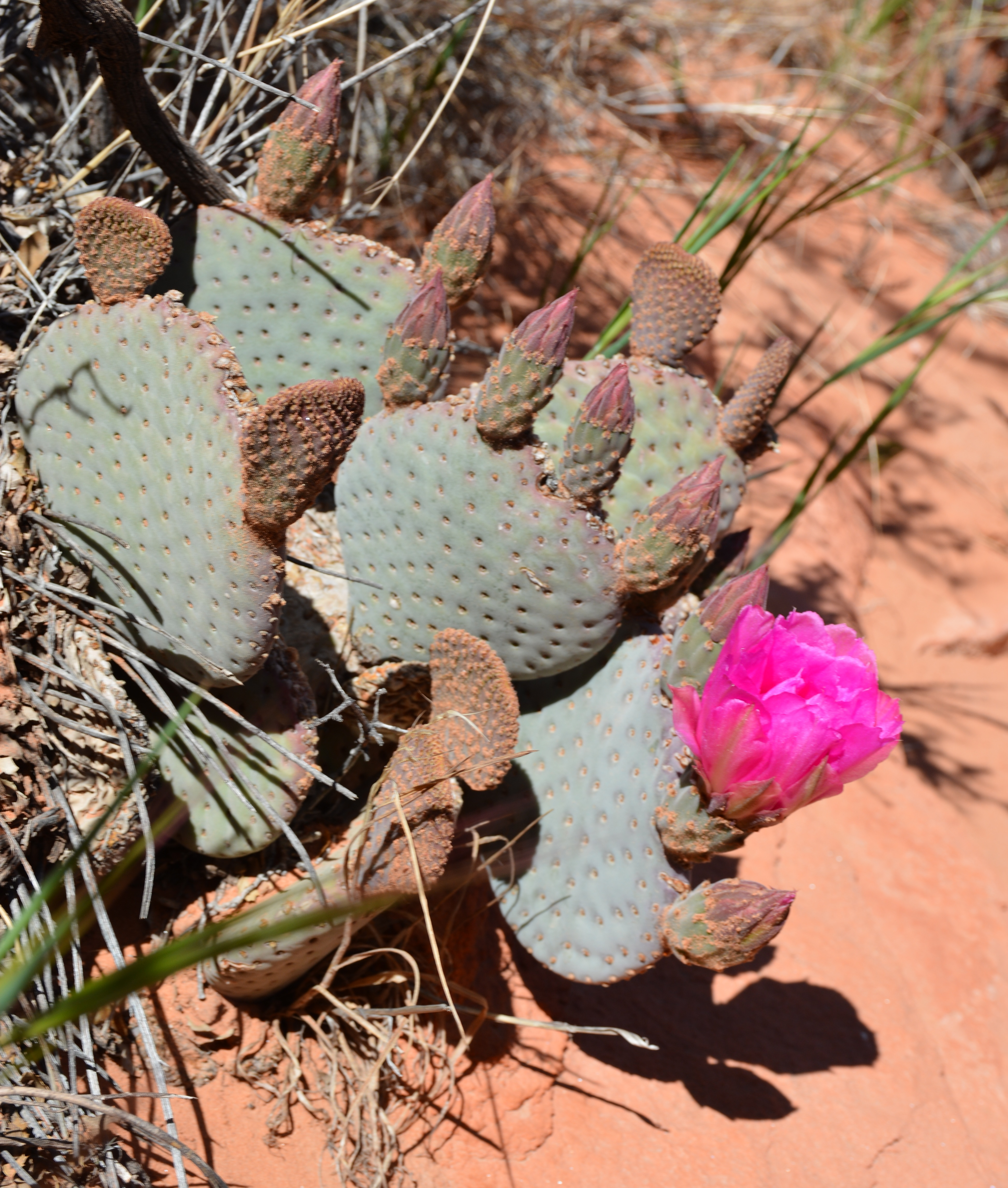 Beavertail Cactus (Opuntia basilaris) in Red Rock Canyon